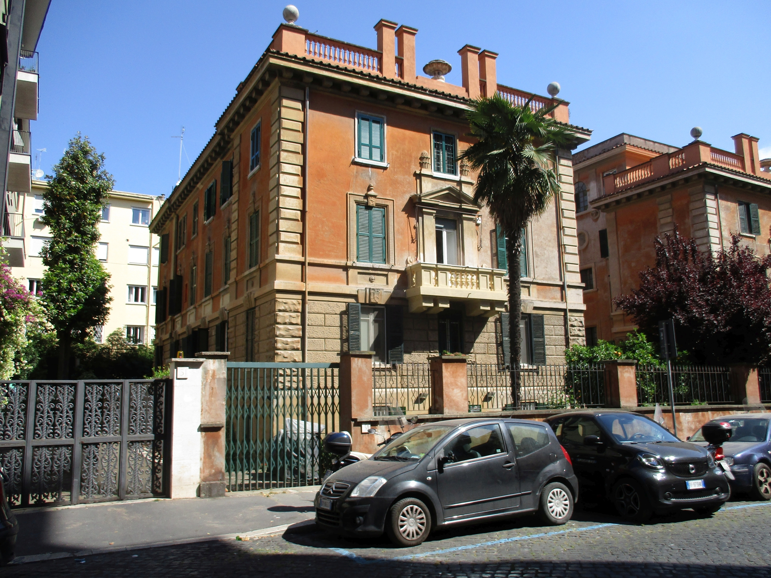 Via Savoia 31 (Rome) where the staircase collapsed in 1951, the event recounted in the movie Rome 11:00 (1952) by Giuseppe De Santis.